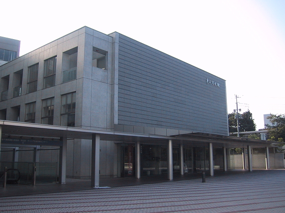 Toyo University Hakusan Campus Inoue Commemoration Hall (No.5 Hall)(東洋大学白山キャンパス井上記念館（5号館）)